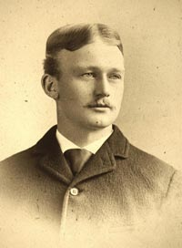 Picture of Dr. Ernest Codman as a young man. He was born in 1869, so it's a relatively safe bet that this photography's "author" died prior to 70 years ago.